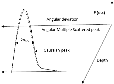 Propagation of Multiple scattering angular distribution through matter.The half-width of the angular MS Distribution is α1/2